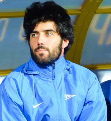 Luís Neto